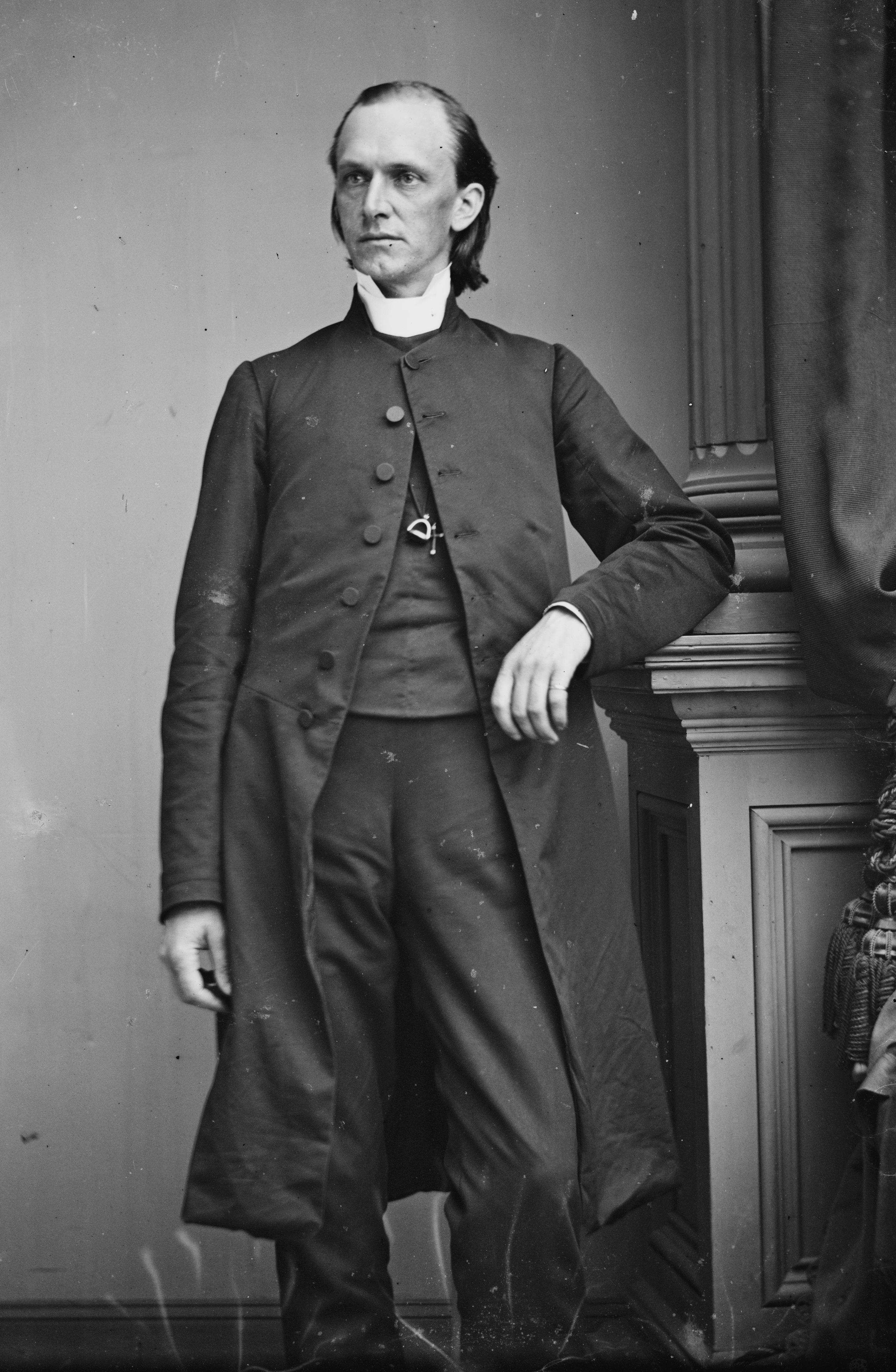 Henry Benjamin Whipple. Library of Congress description: "H. P. Whipple". (Identification based on [1], source of previously used photo of Whipple.)